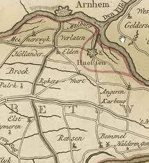 The Arnhem-Nijmegen river region (Overbetuwe) around 1700